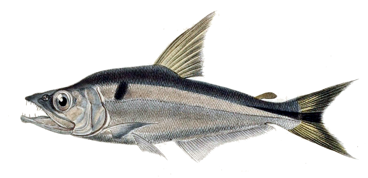 « Hydrocyon humeralis » = Galeocharax humeralis